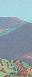 Small anaglyphed image with 10meter baseline. For stereoscopy article and related image information. The narrowness of the image was required to eliminate foreground trees from the view, taken from the roof ridge of a suburban house.